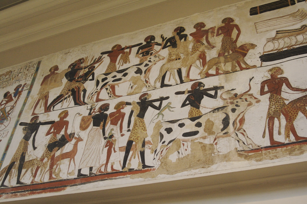 A hoard of photos from a day trip to London. We started in Greenwich at the Royal Observatory, and then spent most of the evening at the British Museum. These are uncleaned and unedited; all I've done is shrunk to make it faster to upload them. I'll post some of my faves to my "real" Flickr account as time and mood permits. A hoard of photos from a day trip to London. We started in Greenwich at the Royal Observatory, and then spent most of the evening at the British Museum. These are uncleaned and unedited; all I've done is shrunk to make it faster to upload them. I'll post some of my faves to my "real" Flickr account as time and mood permits.